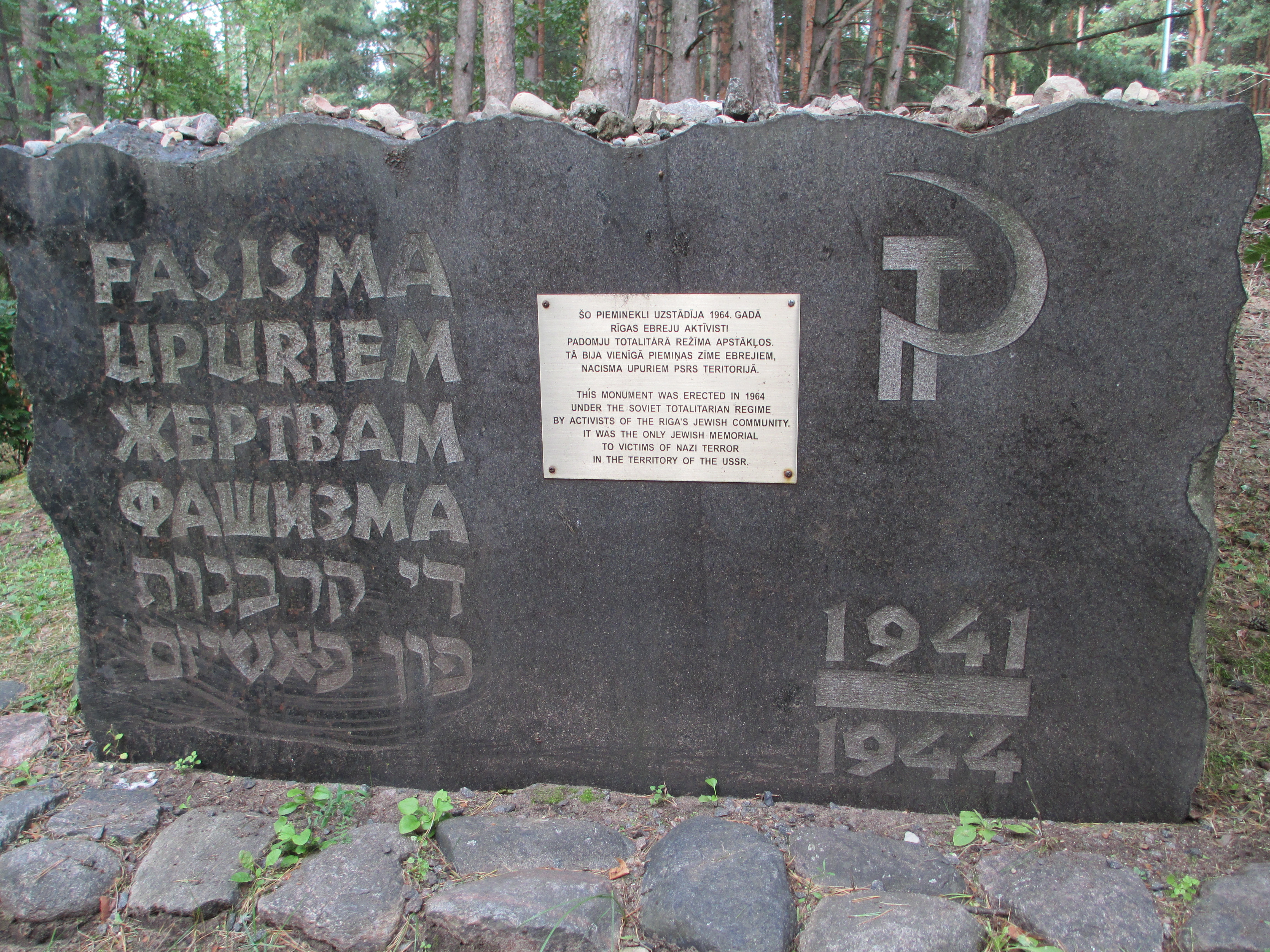 memorial plaque in rumbula forest - first in ussr territory